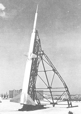 Exos (PWN-4A) sounding rocket